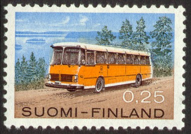 Postage stamp depicting a Finnish post-bus from the early 1970s